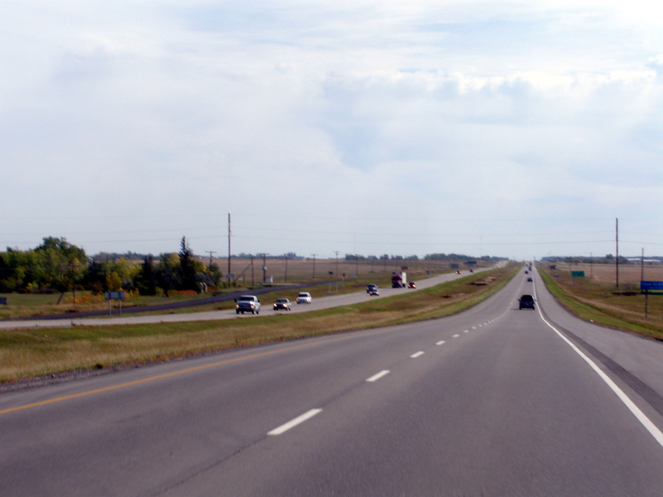 Trans Canada Highway 1 between Regina and Pilot Butte